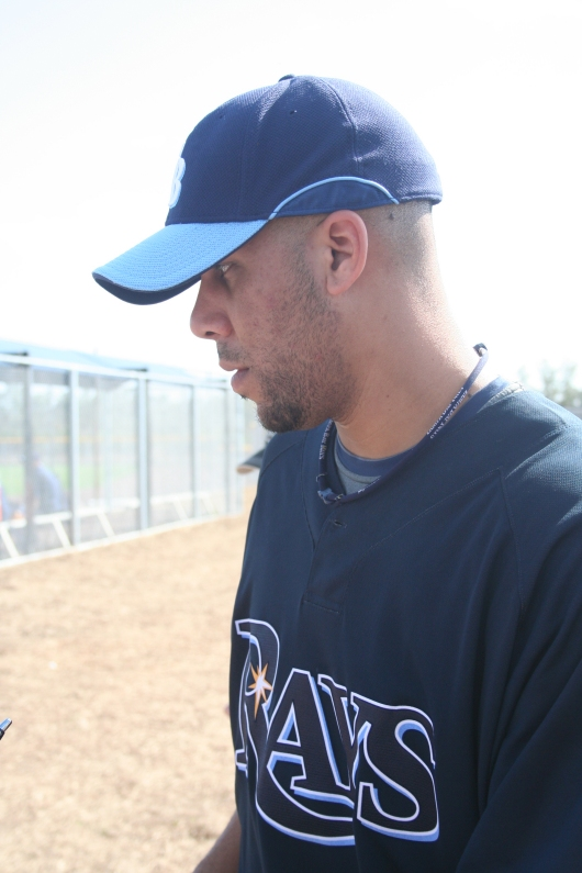 Description Tampa Bay Rays pitcher David Price DateSourceI created this work entirely by myself.AuthorHappyHarvick2962 (talk) 13:51, 17 February 2009 . . HappyHarvick2962 . . 530×795 (189 KB) Tampa Bay Rays pitcher David Price